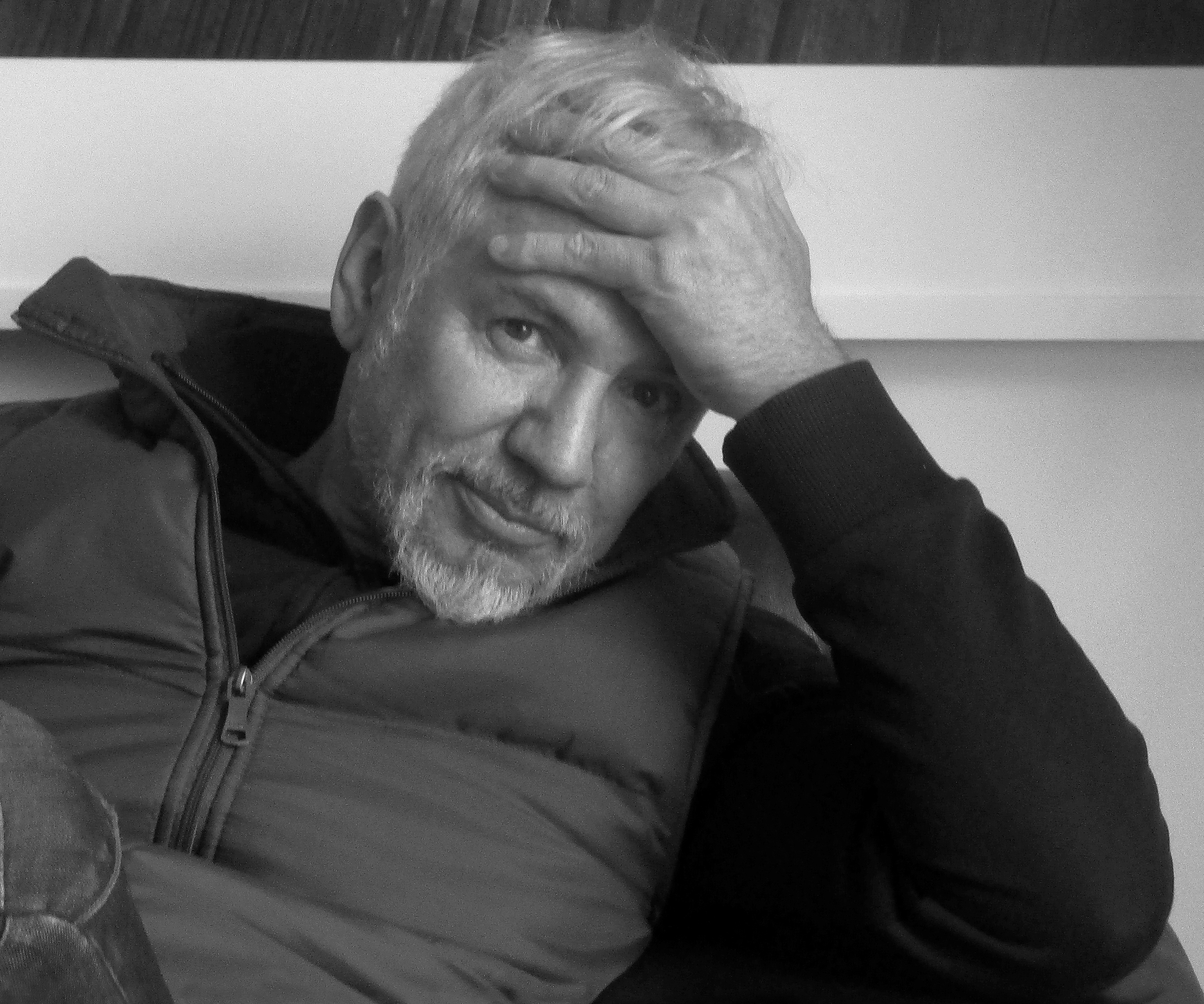 Retrato do cineasta, fotógrafo e diretor de arte brasileiro Dede Fedrizzi em seu estúdio em São Paulo, Brasil em 2016. Foto por Ithaka Darin Pappas